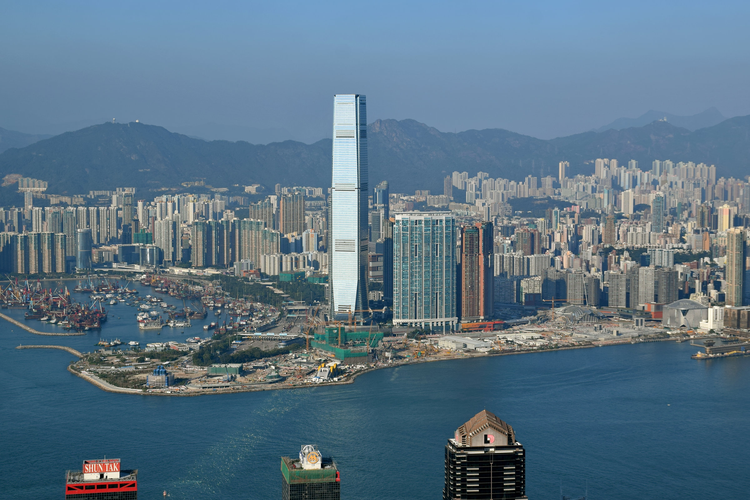 Aerial view of West Kowloon Cultural District (2018-01)